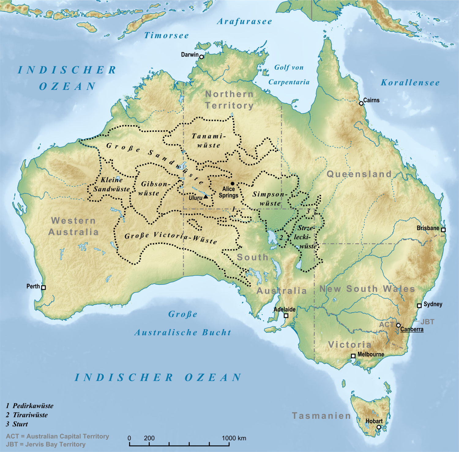 Map of the Deserts of Australia